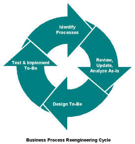 Business Process Reengineering Cycle